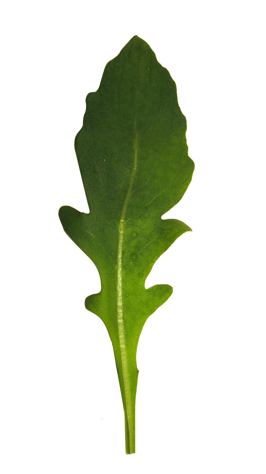 Rocket